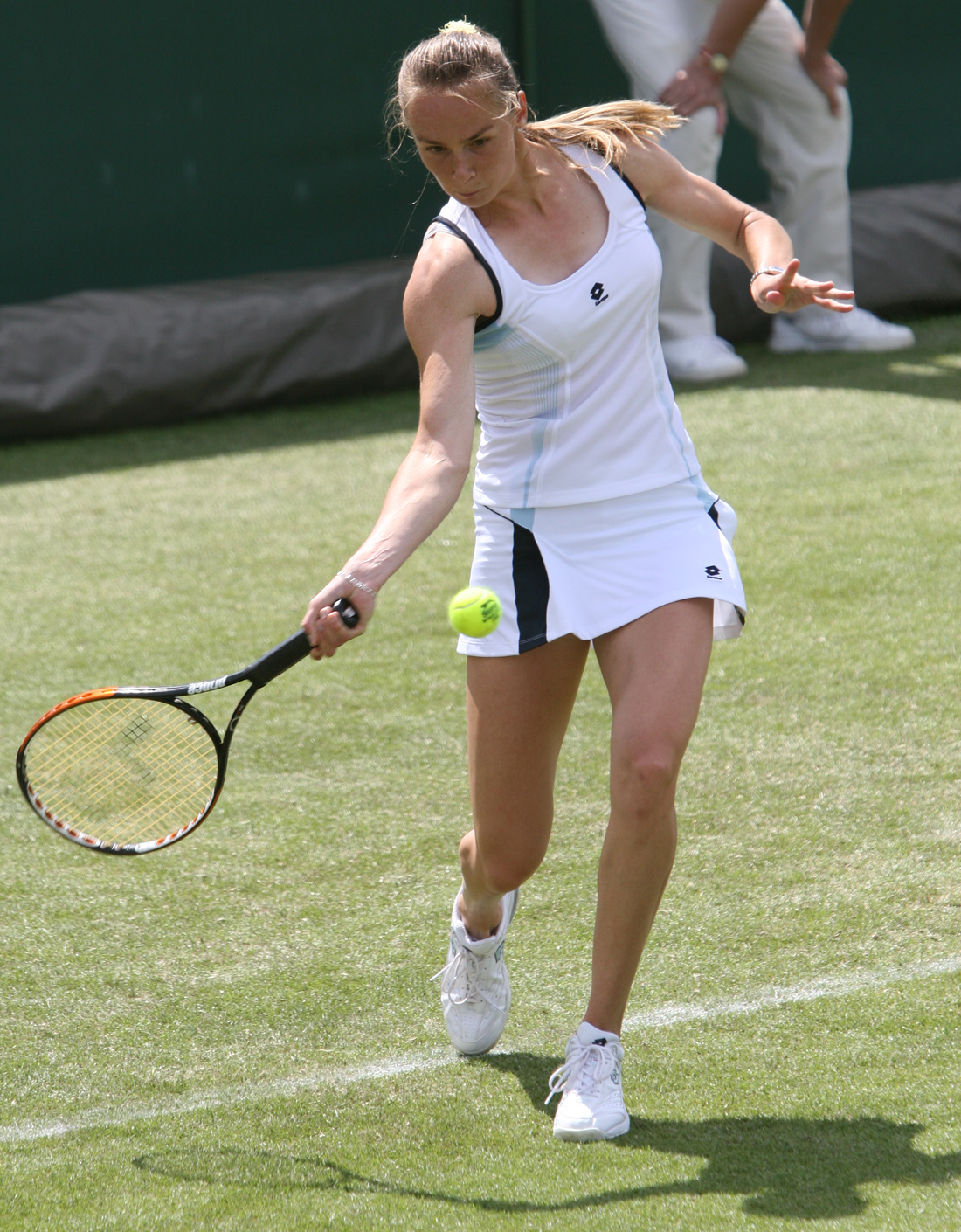 Slovak tennis player Magdalena Rybarikova playing in the first round of qualifiers at Wimbledon on 17 June 2008 against Anda Perianu.